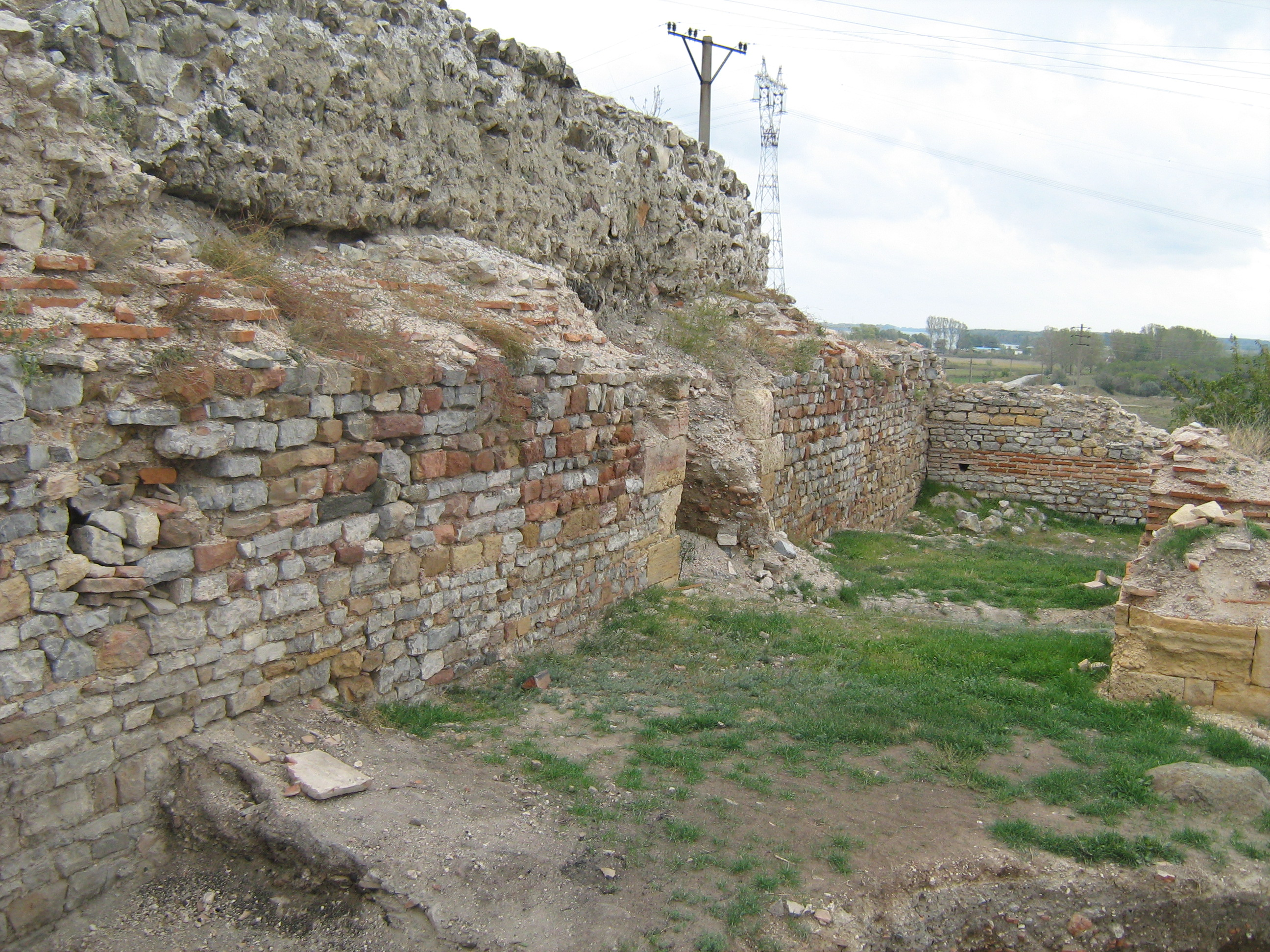 Noviodumum Fort, Isaccea, Romania